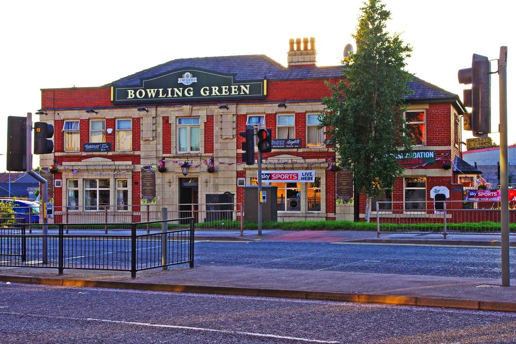 Bowling Green Inn (1), 2 Bowling Street, Hollinwood, Oldham